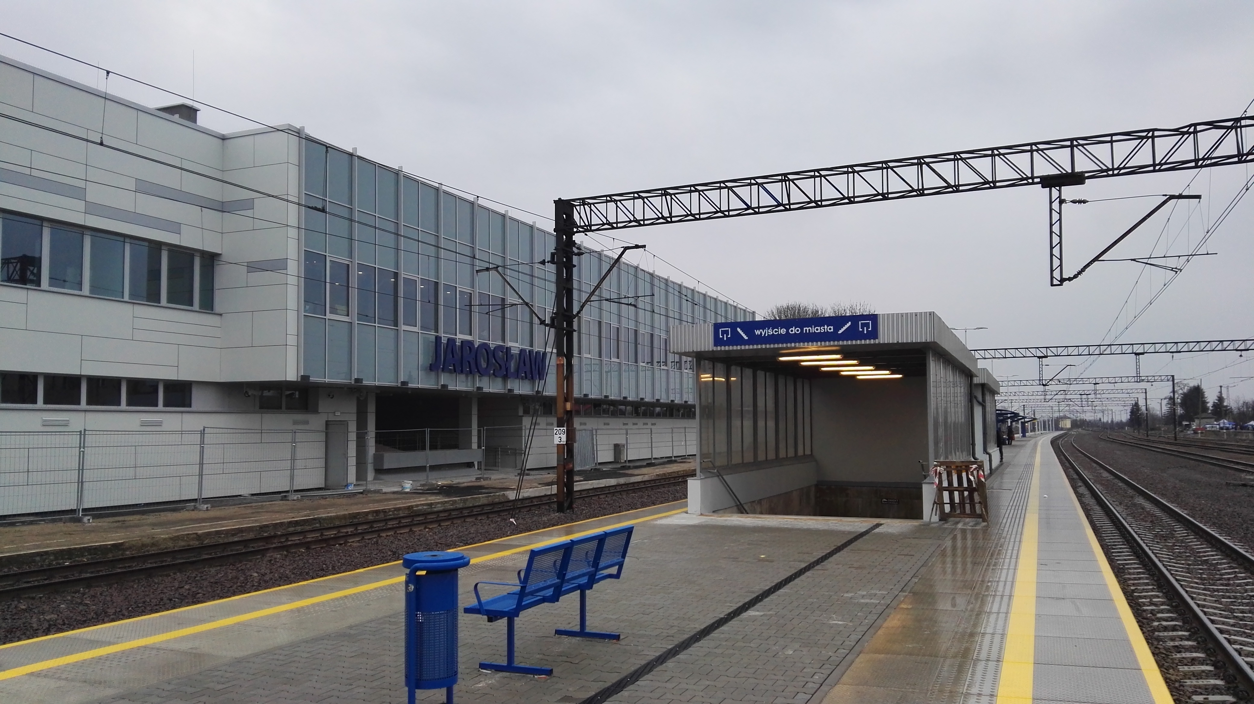 Jarosław Railway Station Building 2016